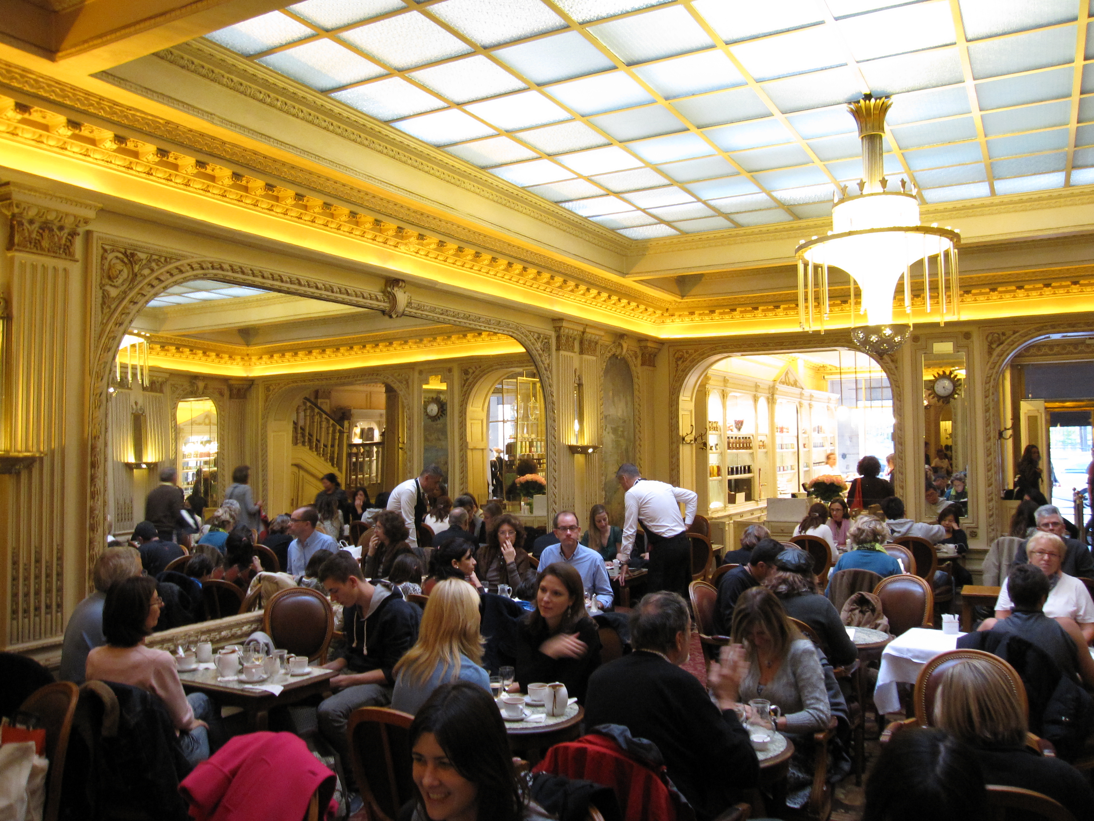 Interior of the Angelina cafÃ© in Paris.